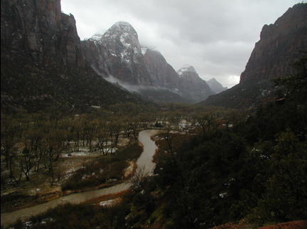 North Fork Virgin River, Zion National Park